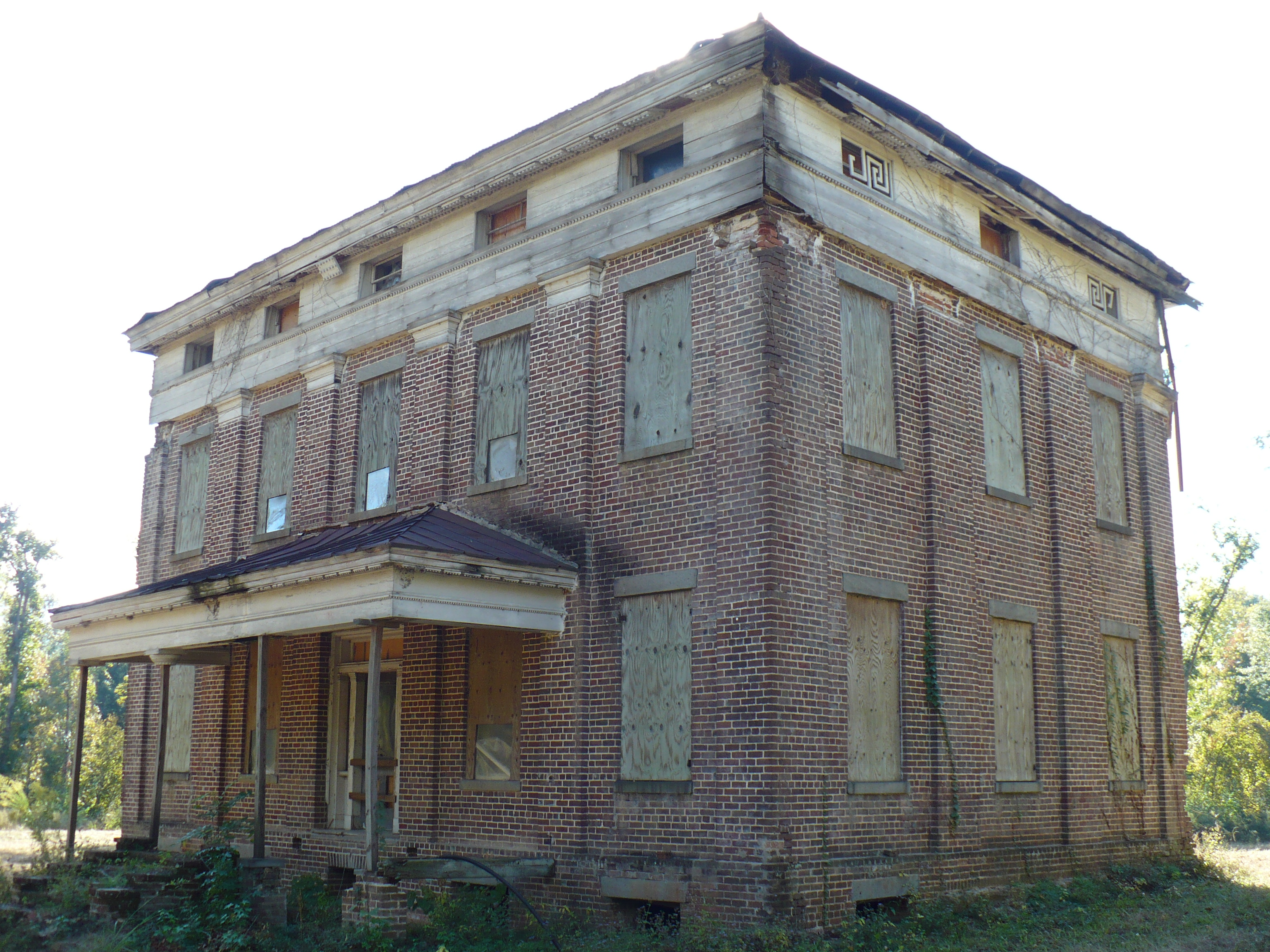 Elm Bluff Plantation, also known as the John Jay Crocheron House, in rural Dallas County, Alabama on the Alabama River. Built in 1845. Crocheron was a native of Staten Island, New York and the son of John Crocheron and Johanna Houseman. Crocheron had relocated to Alabama by the 1820s. He was elected as one of 12 directors for the Bank of Alabama in 1823 and 1824. He established a large plantation of many thousands of acres in Dallas County on the Alabama River across from Cahaba and built this house in the center of it. He died in 1864 and the house has been long abandoned. This image is of the exterior, east (front) and north elevation.